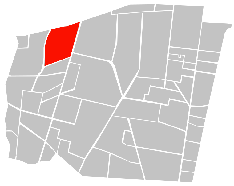 Map of Delegación Benito Juárez in Mexico City, with Colonia Nápoles highlighted in red